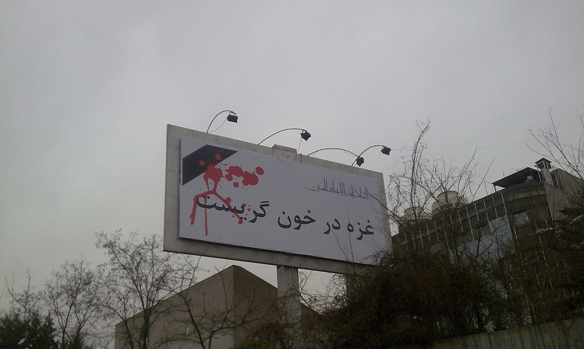 A billboard in Tehran supporting Gaza people in Gaza strip airattacks, December 2008. The Persian Script: غزه در خون گریست means "Gaza Cried in blood" Arabic script (up right): السلام‌علیک یا اباعبدالله‌الحسین means "Peace upon you! O Abi Abdellah Al-Husayn"